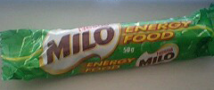 A milo chocolate bar